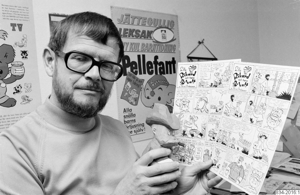 Cartoonist Rune Andréasson (1925–1999) in his studio in Viken, Höganäs Municipality, Sweden.